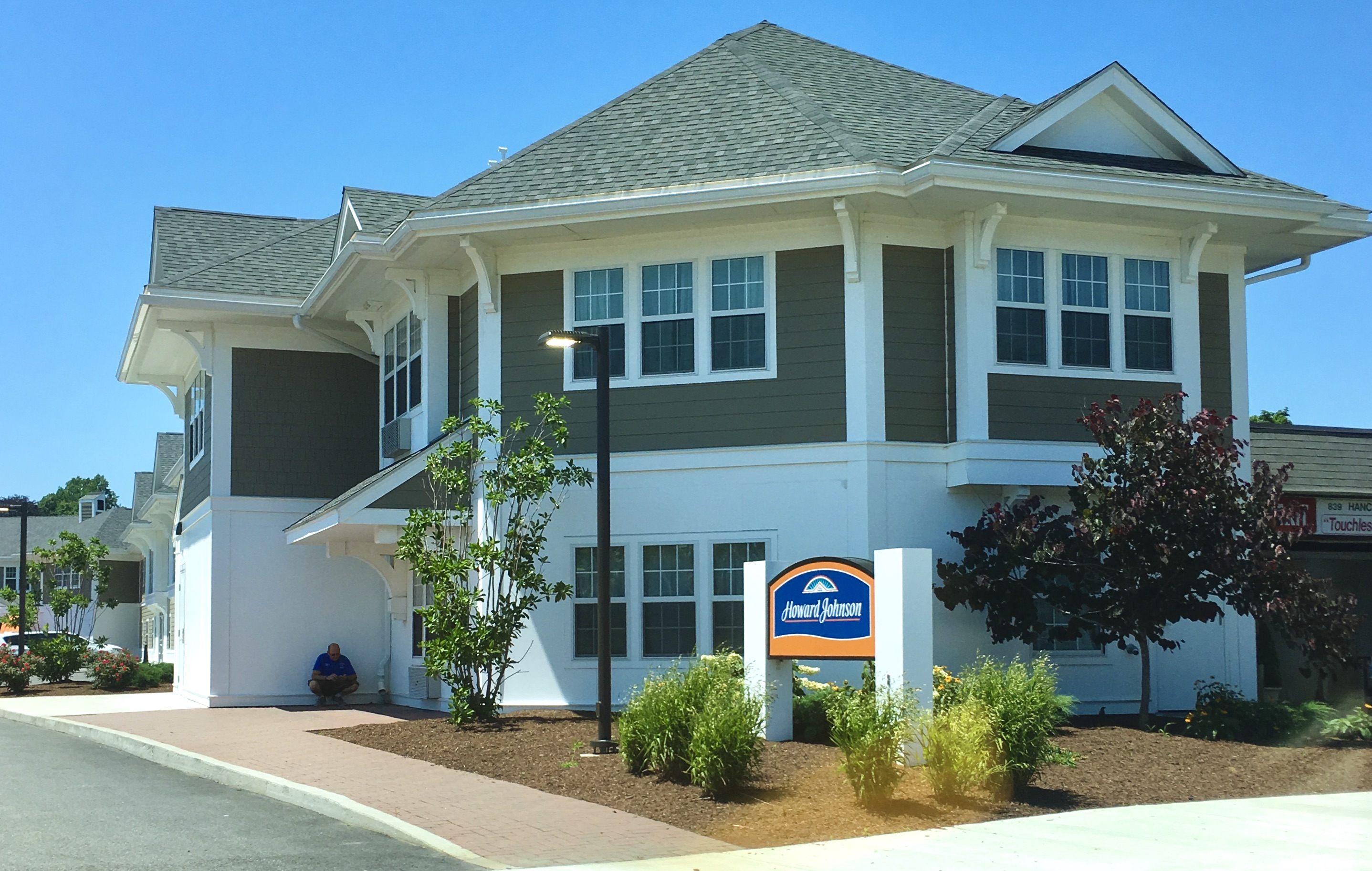 A 2018 exterior photograph of a Howard Johnson hotel in Quincy, Massachusetts. The brand was founded in Quincy back in 1925.